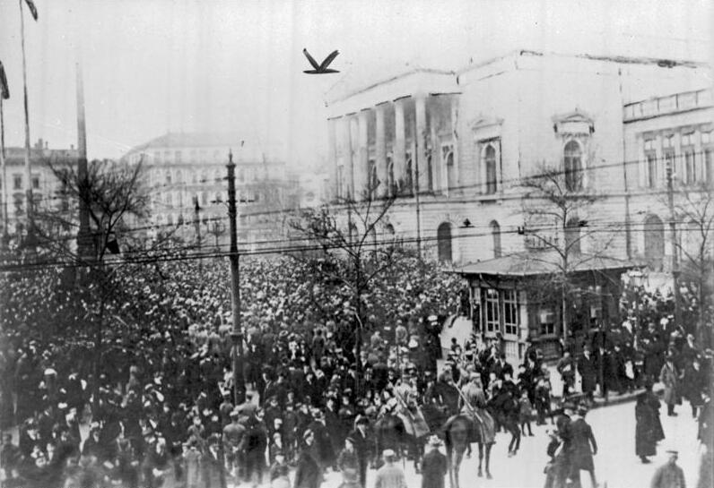 German Revolution: 8 November 1918, Leipzig.A large demonstrations of workers and soldiers. On the evening of the 8th of November, the newly-formed Council of Workers and Soldiers of War issued a appeal calling on the workers to come out on ageneral strike and conquer political power.